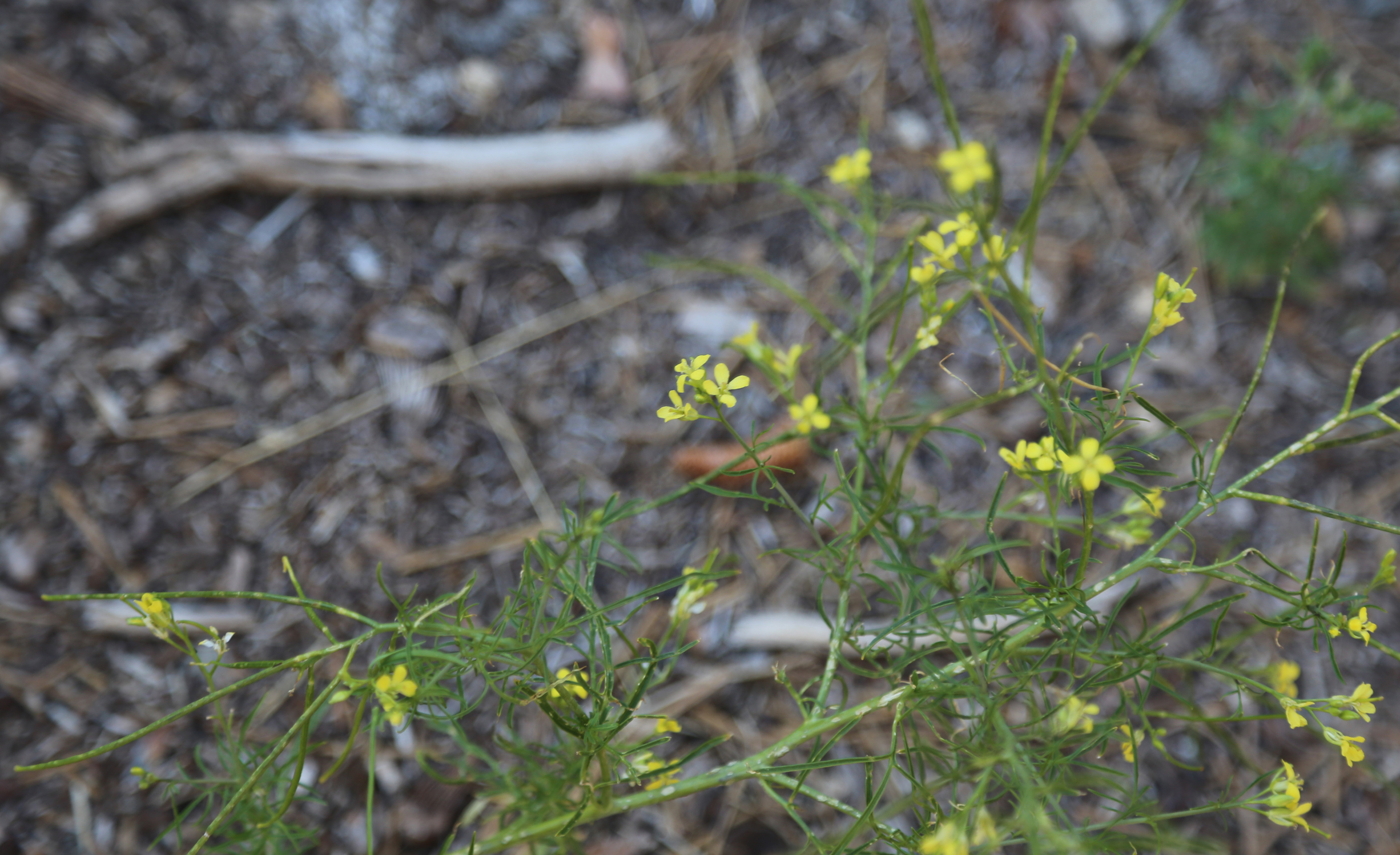 Tumblemustard (Sisymbrium altissimum) plant. When seeds are fully developed, roots wither and the plant tumbles away to spread seed. At 7400ft, start of Pine Creek trail, Eastern Sierra, California USA.